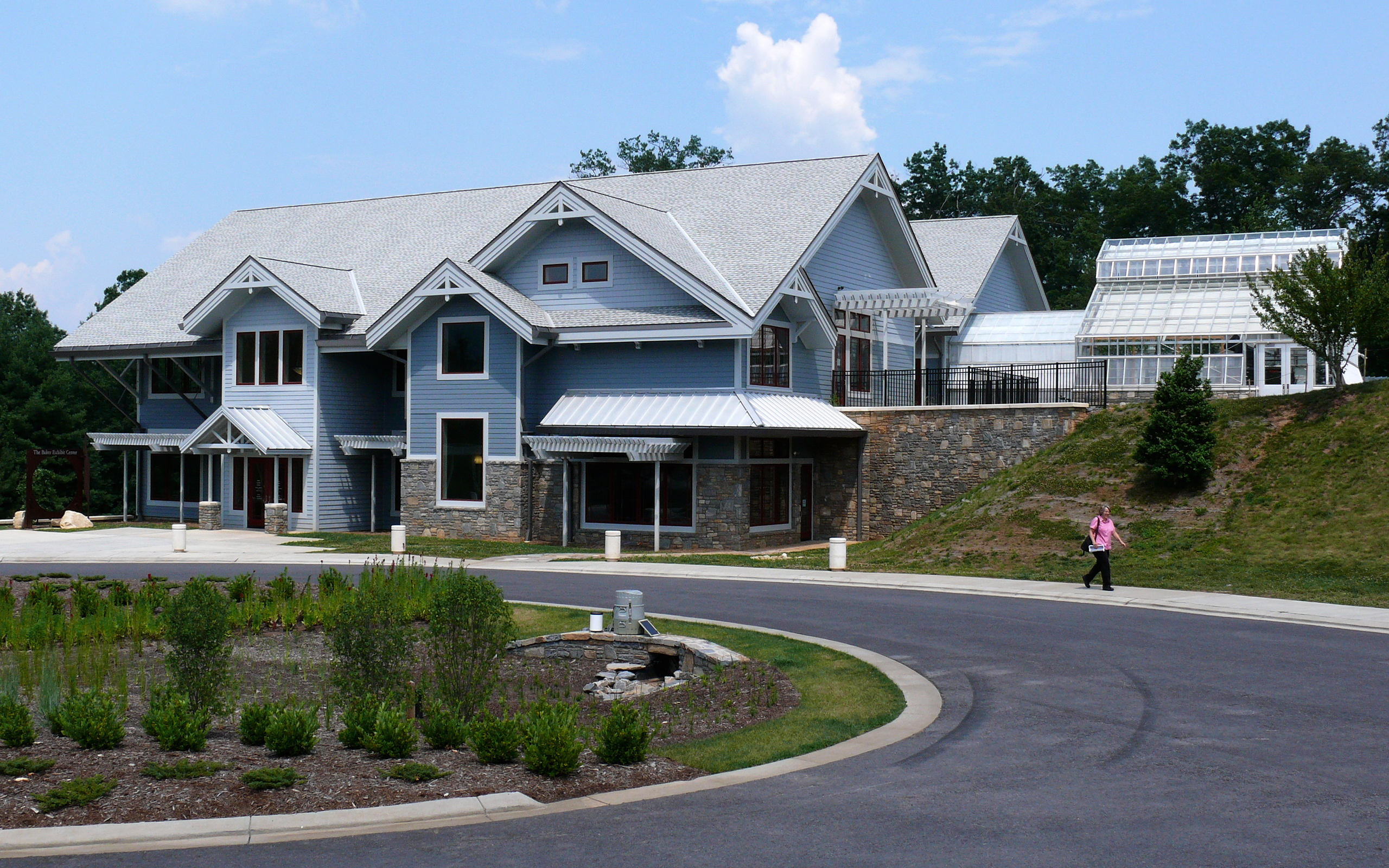 The Baker Exhibit Center at the North Carolina Arboretum. Photo taken with a Panasonic Lumix DMC-FZ50 in Buncombe County, NC, USA.